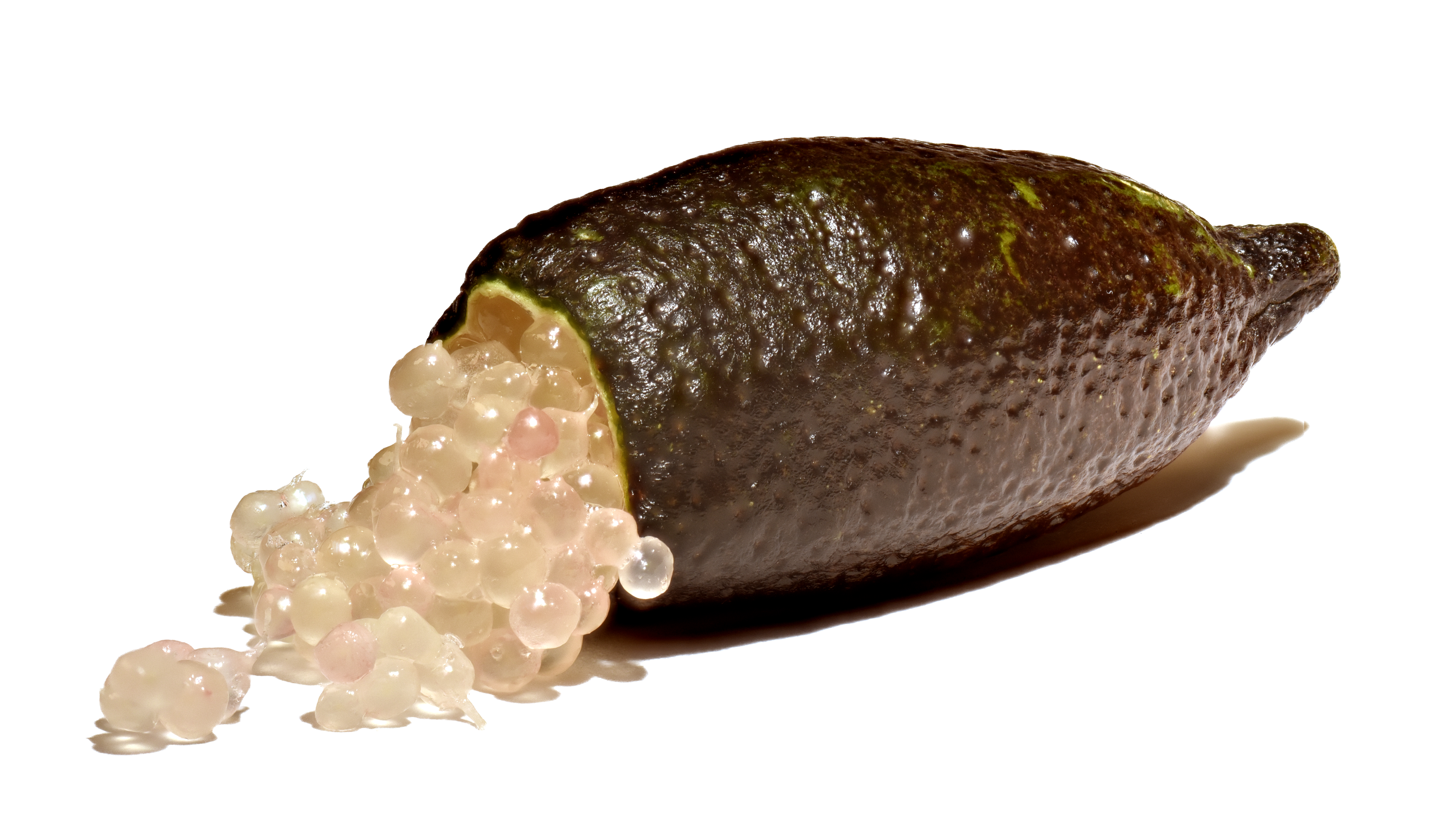 Citrus australasica, the Australian finger lime or caviar lime